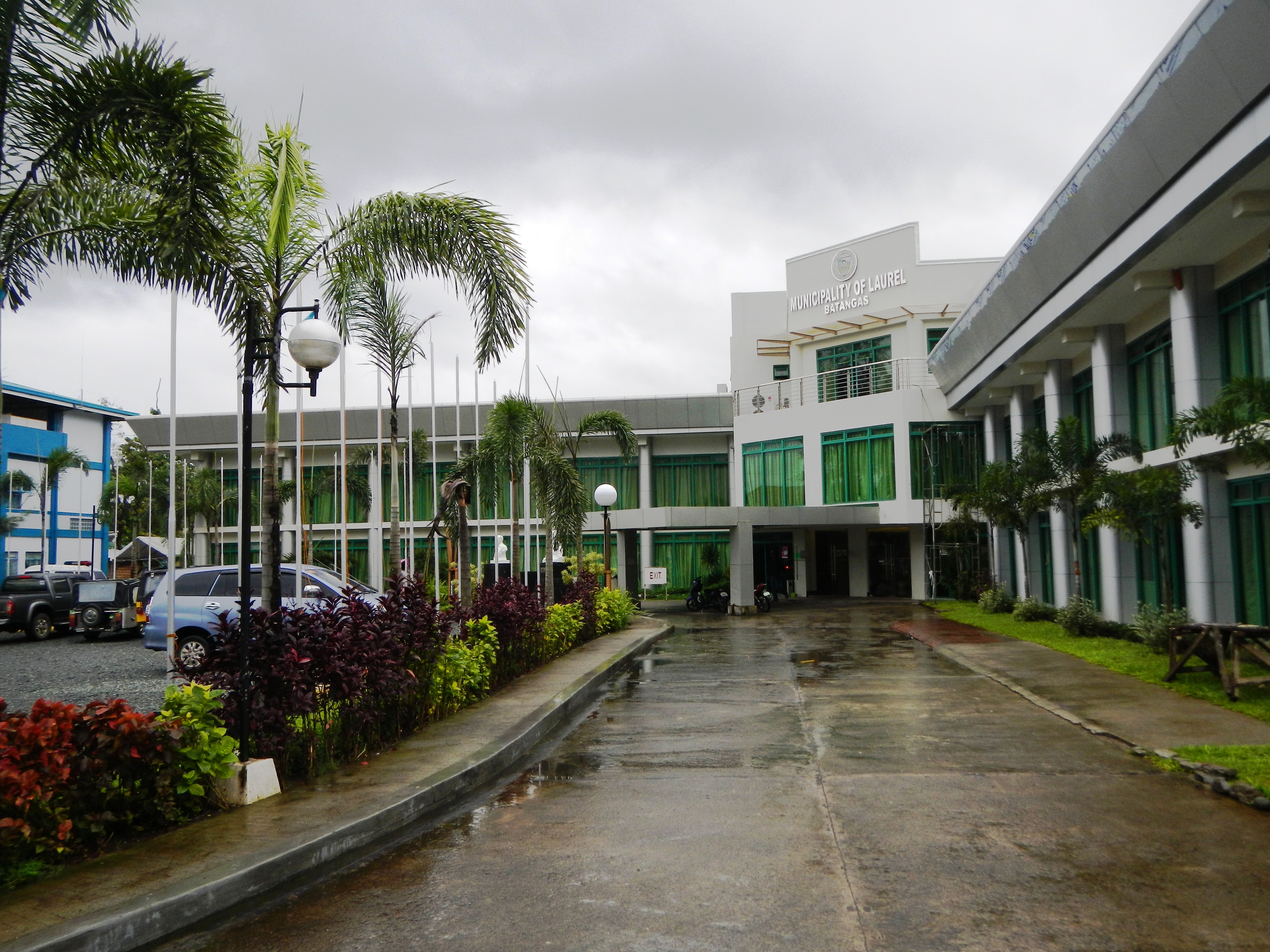 Upload Wizard -- (general description of landmarkds, town, church, bad weather, going to dark, sunset conditions) - Laurel Town Hall, and surroundings, downtown, centro, town proper - of --- Laurel, Batangas[1] -- [2] Coordinates: 14°3'14"N 120°54'12"E - (a third class municipality in the province of Batangas,[3] Philippines; previously part of Talisay, previously known as Bayuyungan but on May 25, 1961, the new town was renamed Laurel after Miguel Laurel, latest census, it has a population of 34,953 people in 5,153 households politically subdivided into 21 barangays) - Don Gregorio Agoncillo[4]